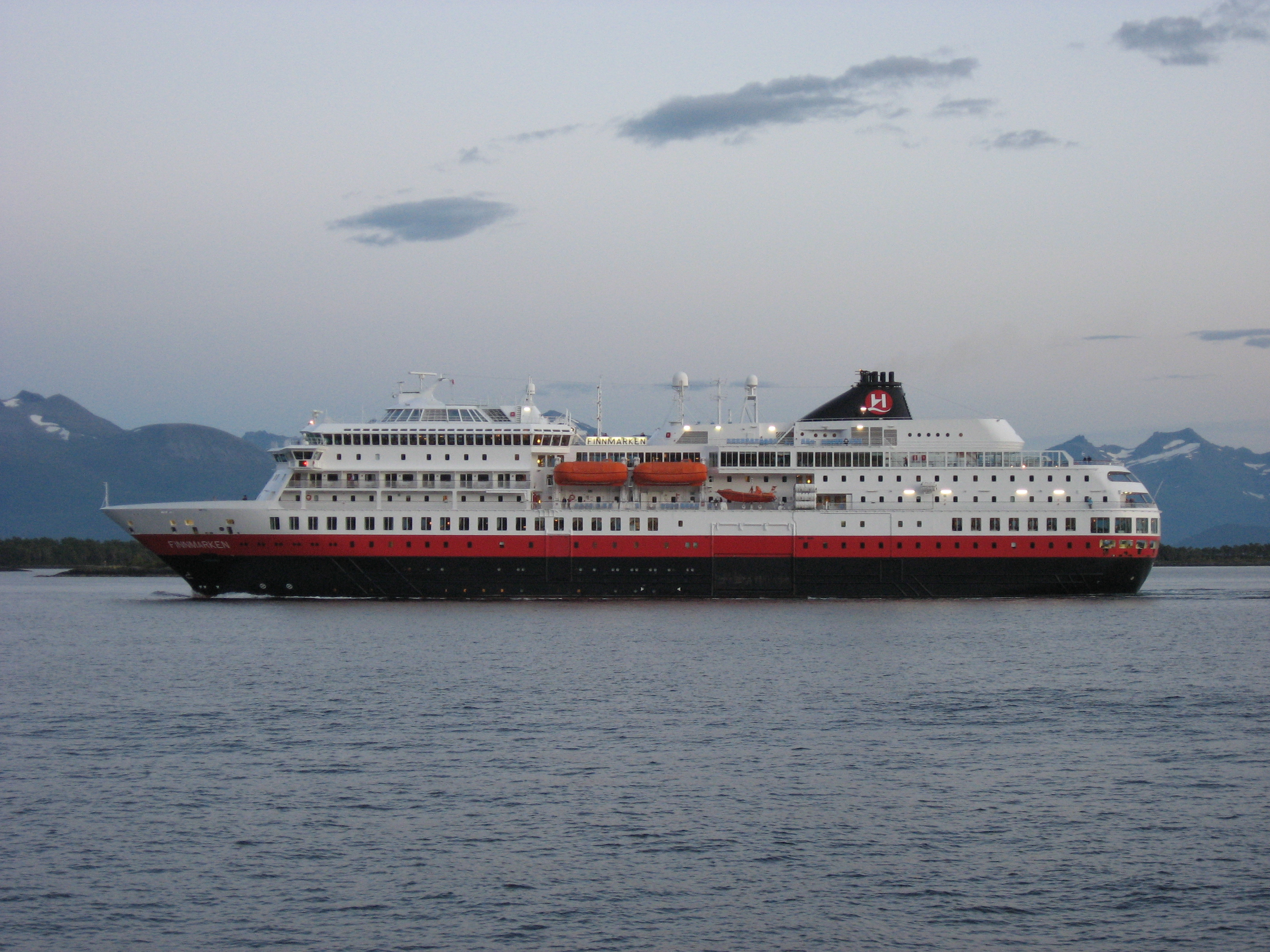 Norwegian coastal steamer (Hurtigruten) ship MS Finnmarken in Moldefjorden.